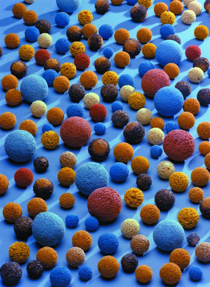 An assortment of cleaning balls for heat exchangers